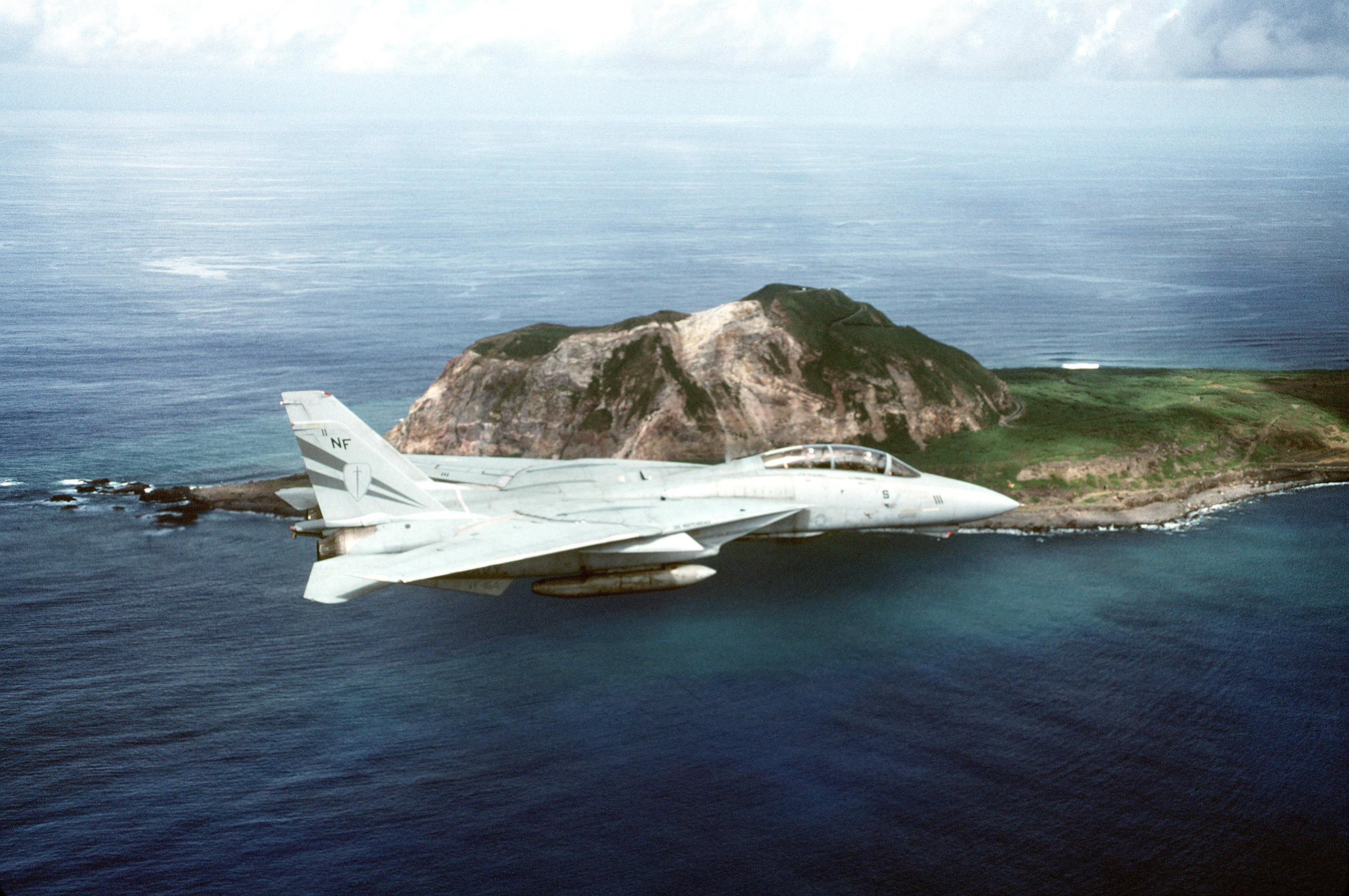 A U.S. Navy Grumman F-14A-100-GR Tomcat (BuNo 160667) of Fighter Squadron 154 (VF-154) in flight over the island of Iwo Jima in 1994. Mount Suribachi is in the background. VF-154 was assigned to Carrier Air Wing 5 (CVW-5) aboard the aircraft carrier USS Independence (CV-62).